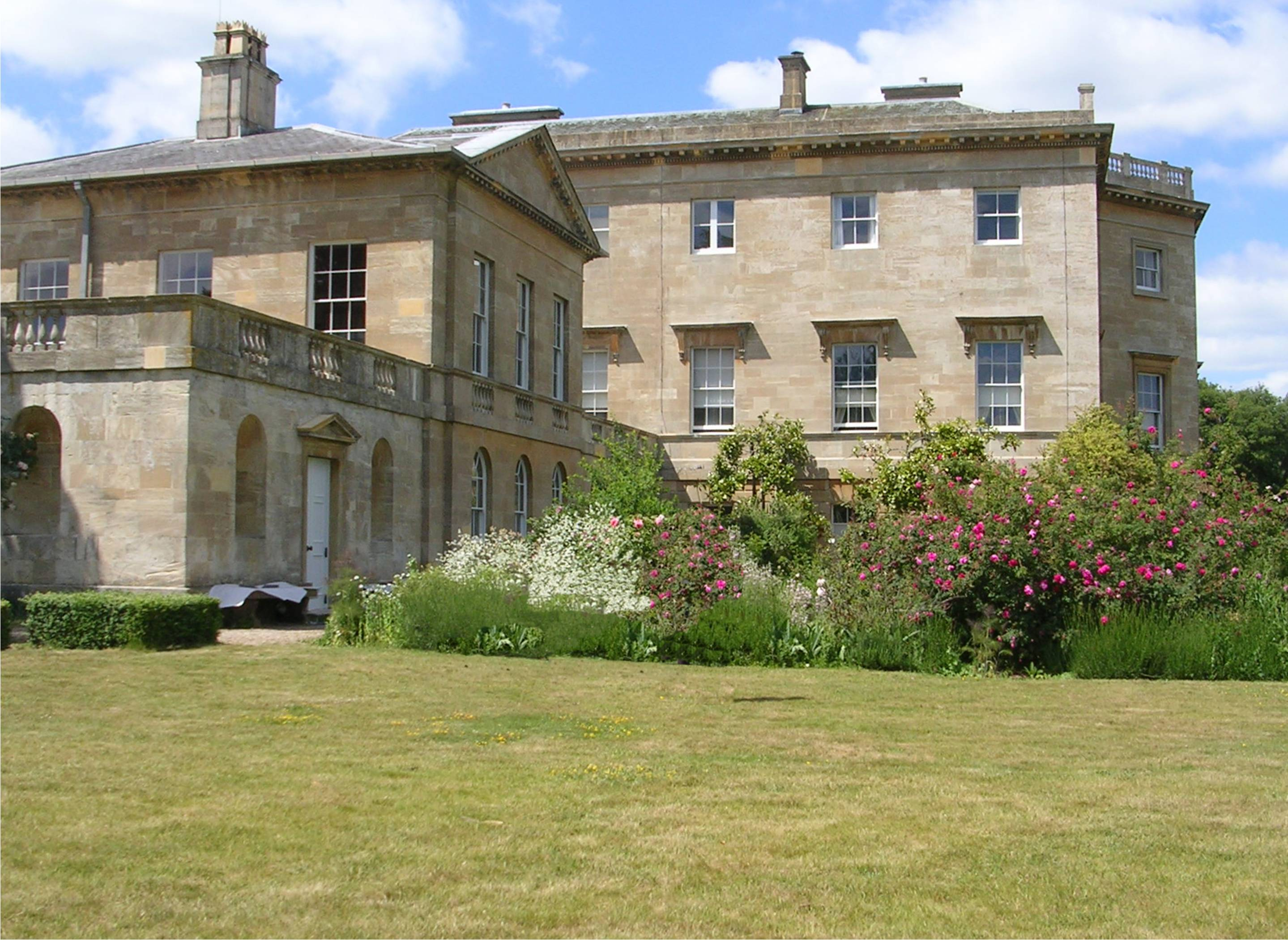 Basildon Park from the south.